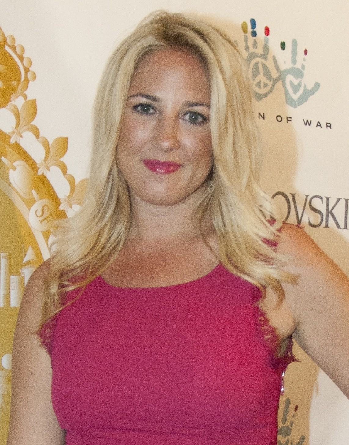 AcademyOfCoutureArt-LeReveGala-HRH Princess Theodora-Arrivals.jpg